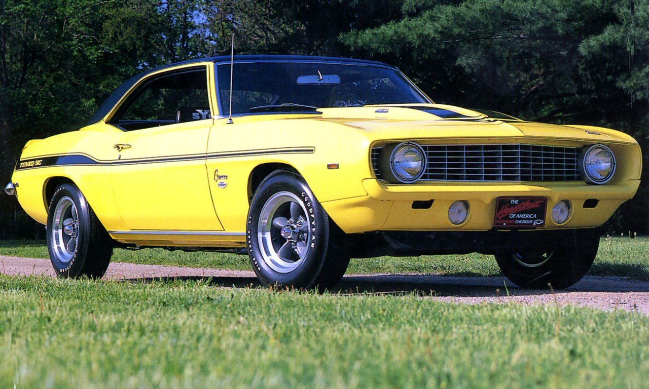 1969_Chevrolet_Yenko_Camaro_427_Yellow_Low_Frt_Qtr